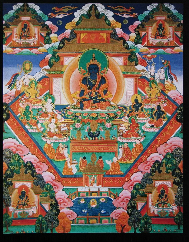 Akshobhya world